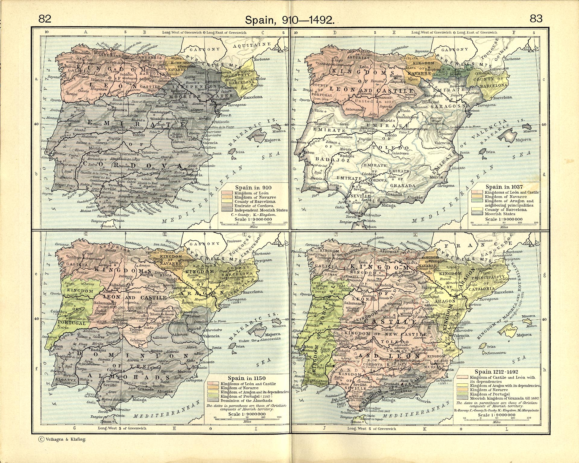 Spain in 910. Spain in 1037. Spain in 1150. Spain 1212-1492. Courtesy of the University of Texas Libraries, The University of Texas at Austin According to this image is from: From The Historical Atlas by William R. Shepherd, 1911 edition